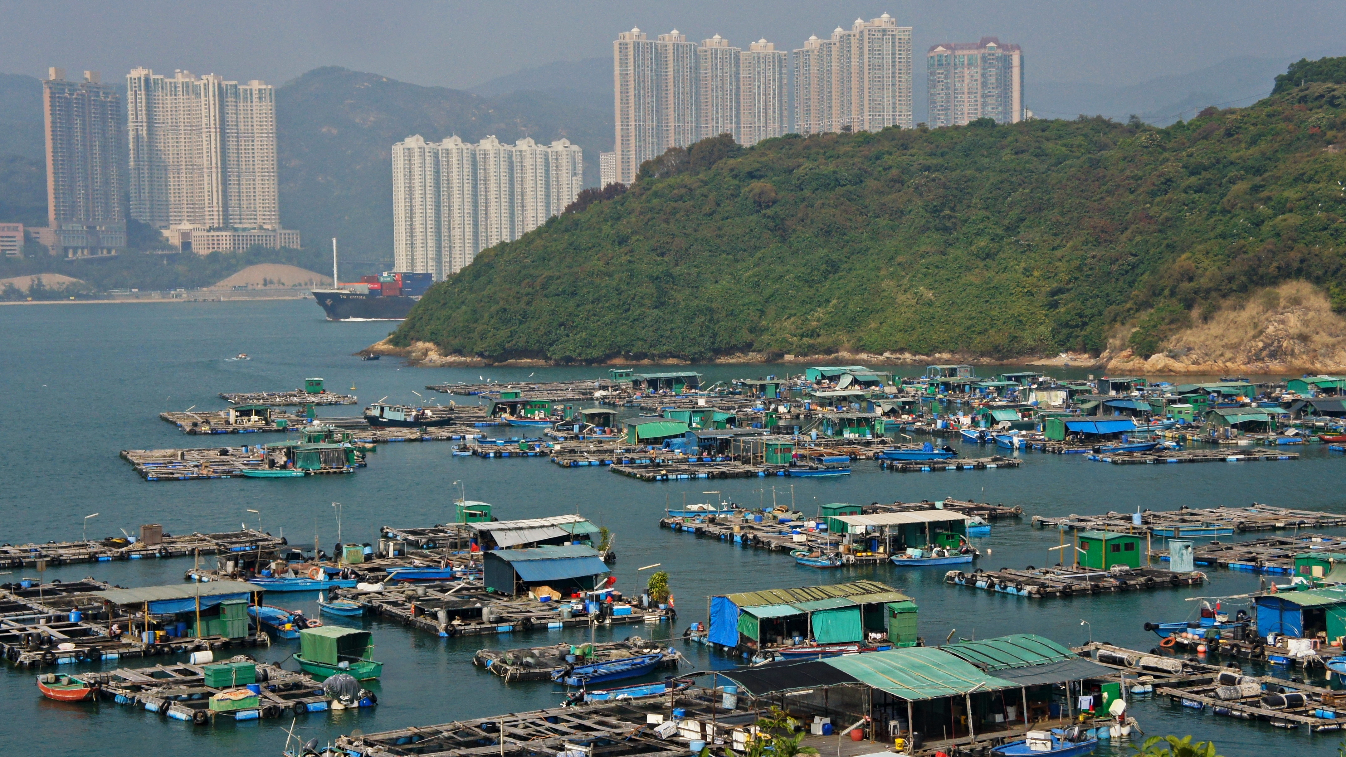 Fishing Rafts at Tam Shui Wan and Shek Tsai Wan, Ma Wan, Hong Kong.